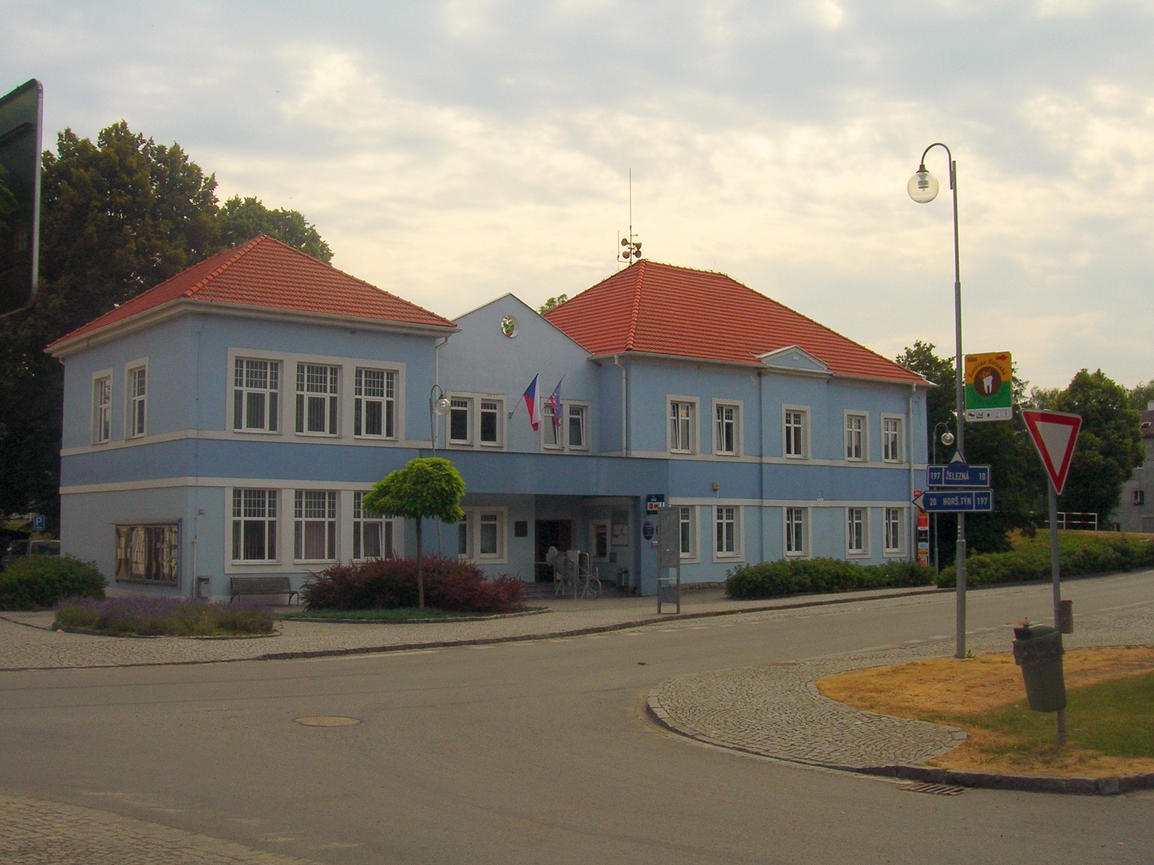 Town Hall of Belà nad Radbuzou de